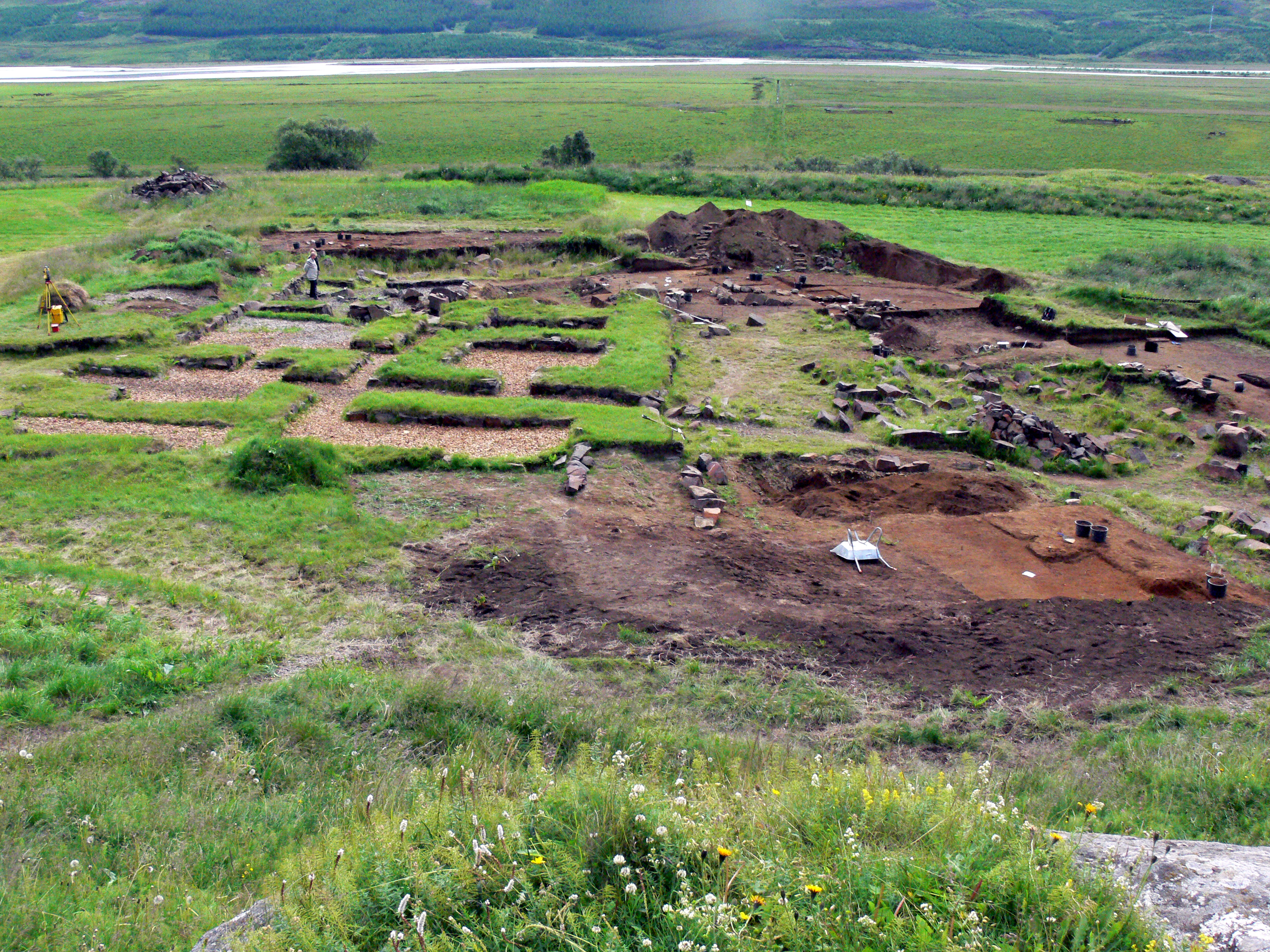 Excavation site of Skiðuklaustur in Iceland from the fifteenth century. This was an Augustinian monastery.